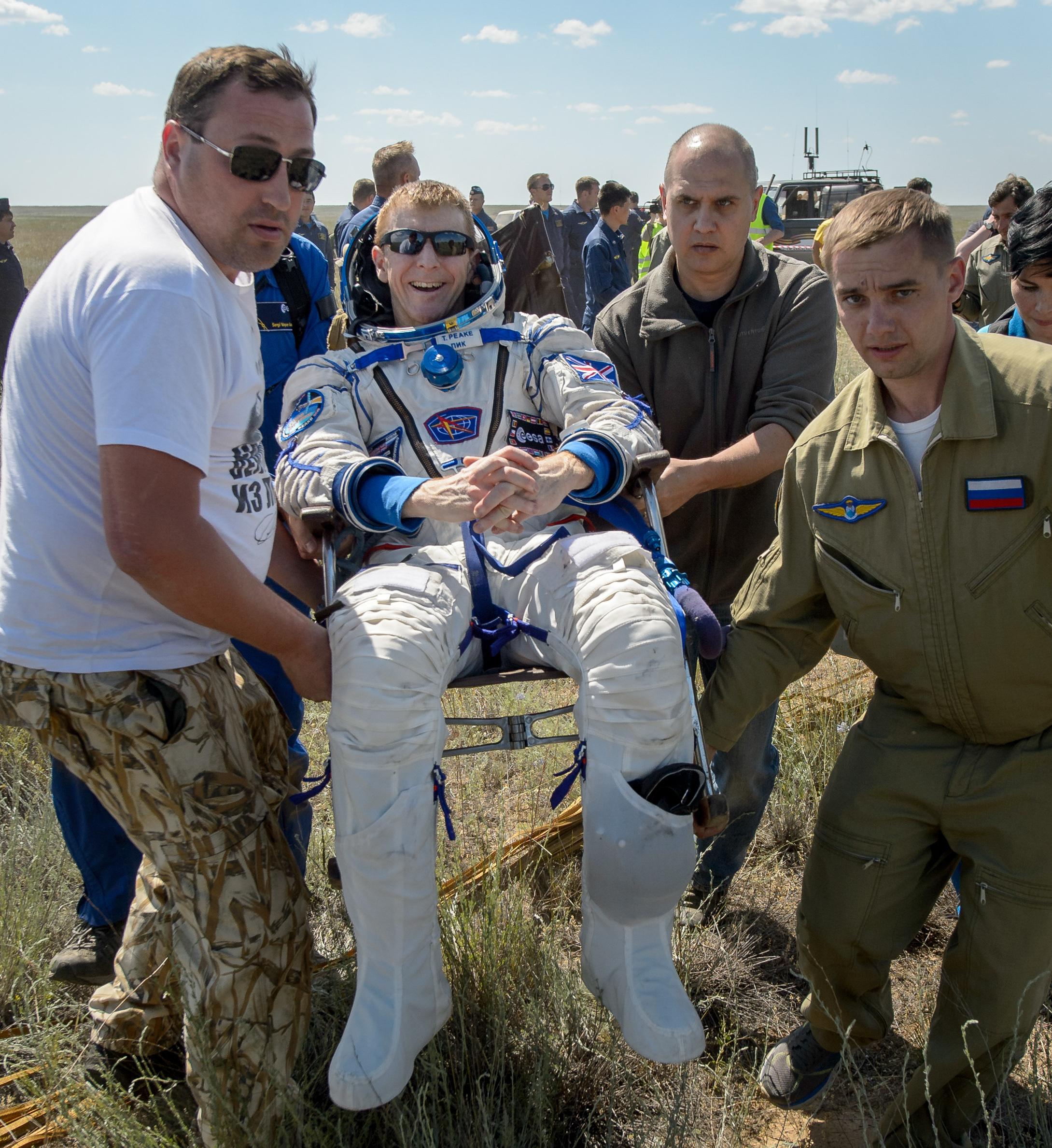 Tim Peake of the European Space Agency is carried to a medical tent after he and Tim Kopra of NASA and Yuri Malenchenko of Roscosmos landed in their Soyuz TMA-19M spacecraft in a remote area near the town of Zhezkazgan, Kazakhstan on Saturday, June 18, 2016. Kopra, Peake, and Malenchenko are returning after six months in space where they served as members of the Expedition 46 and 47 crews onboard the International Space Station.